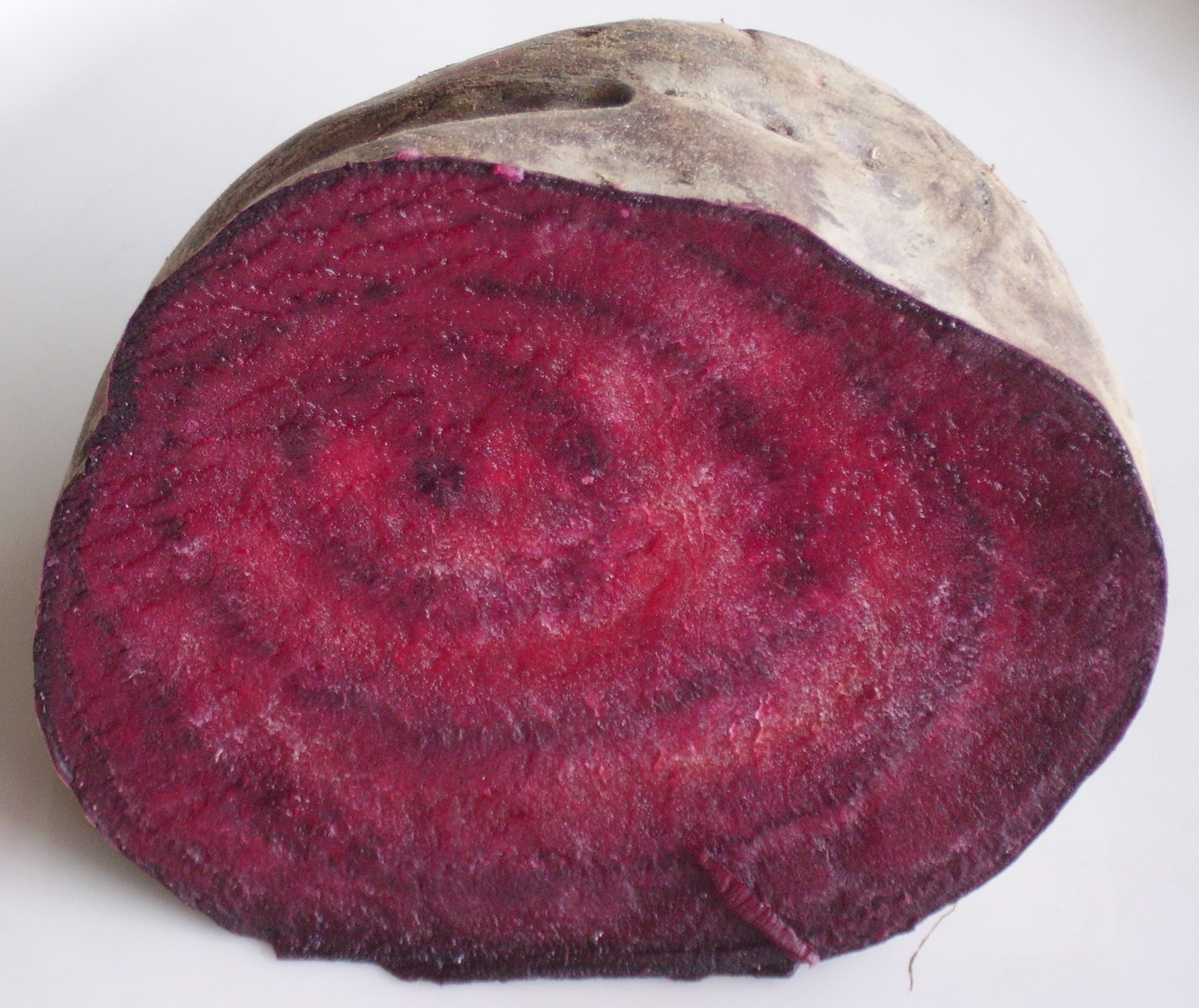 Half part of a beetroot